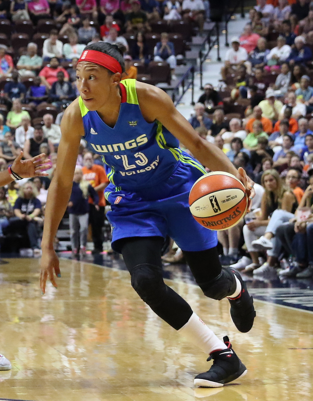 Aerial Powers dribbles in a 2017 WNBA regular season game